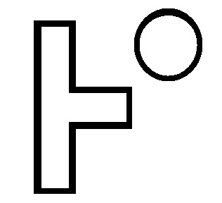 The tamga of Teleu bashkirs